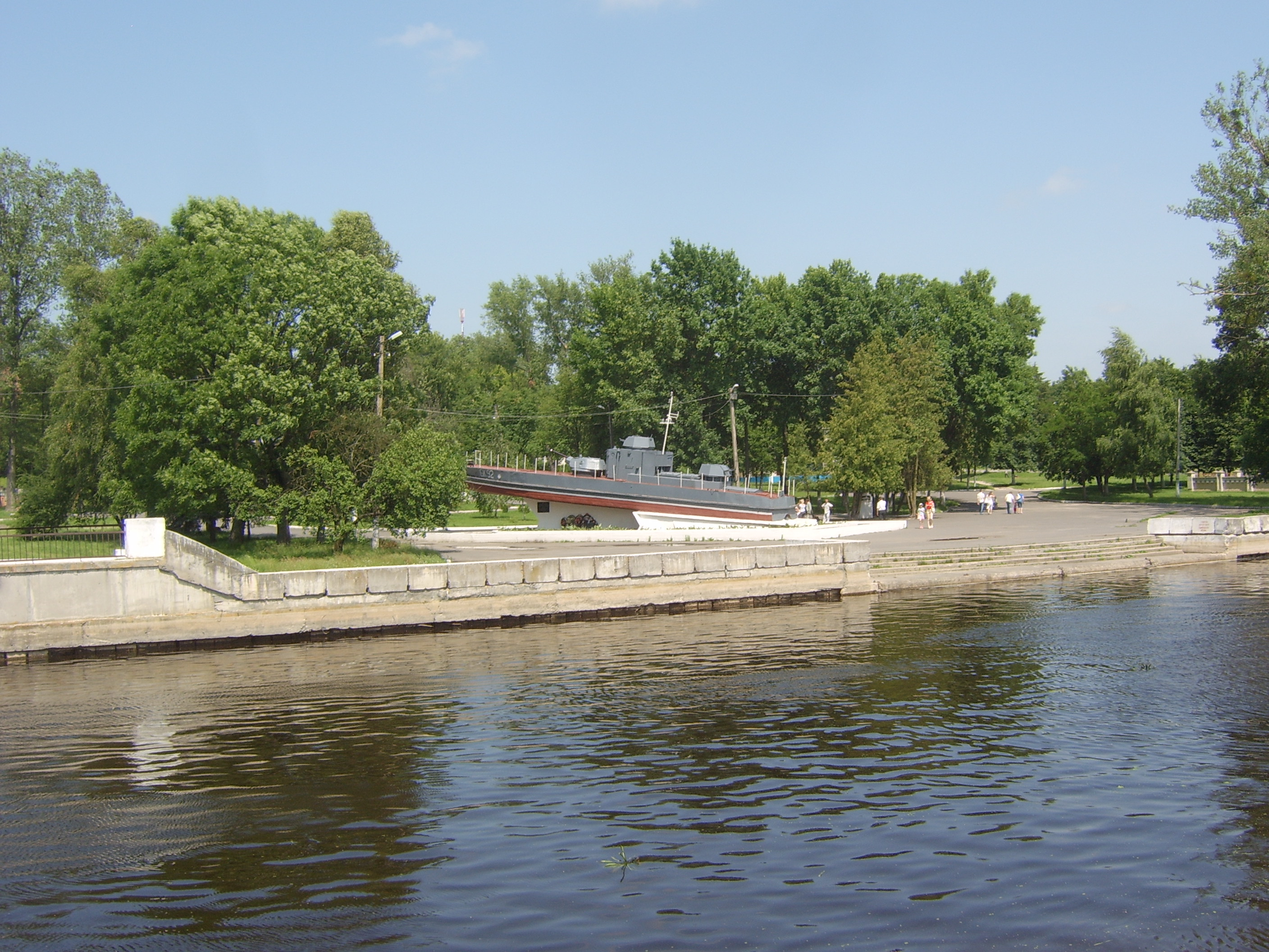 A monument of a project 1125 armoured cutter BKA-92 in Pinsk.